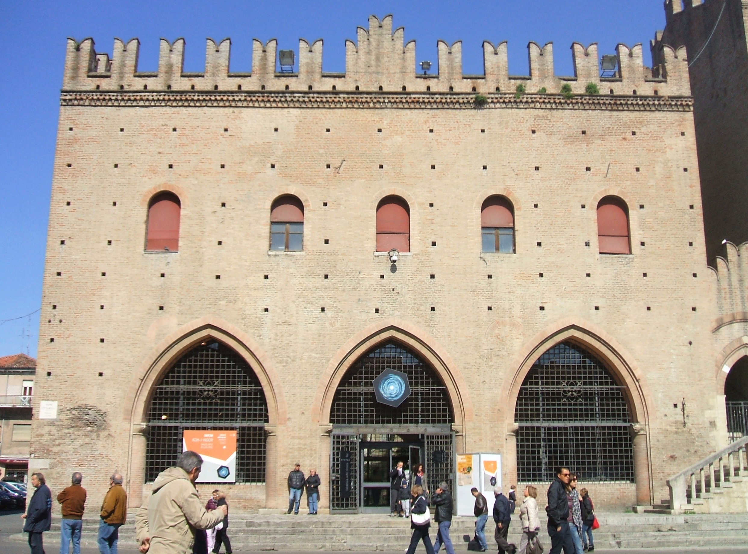 Palazzo del Podestà in Rimini, Italy